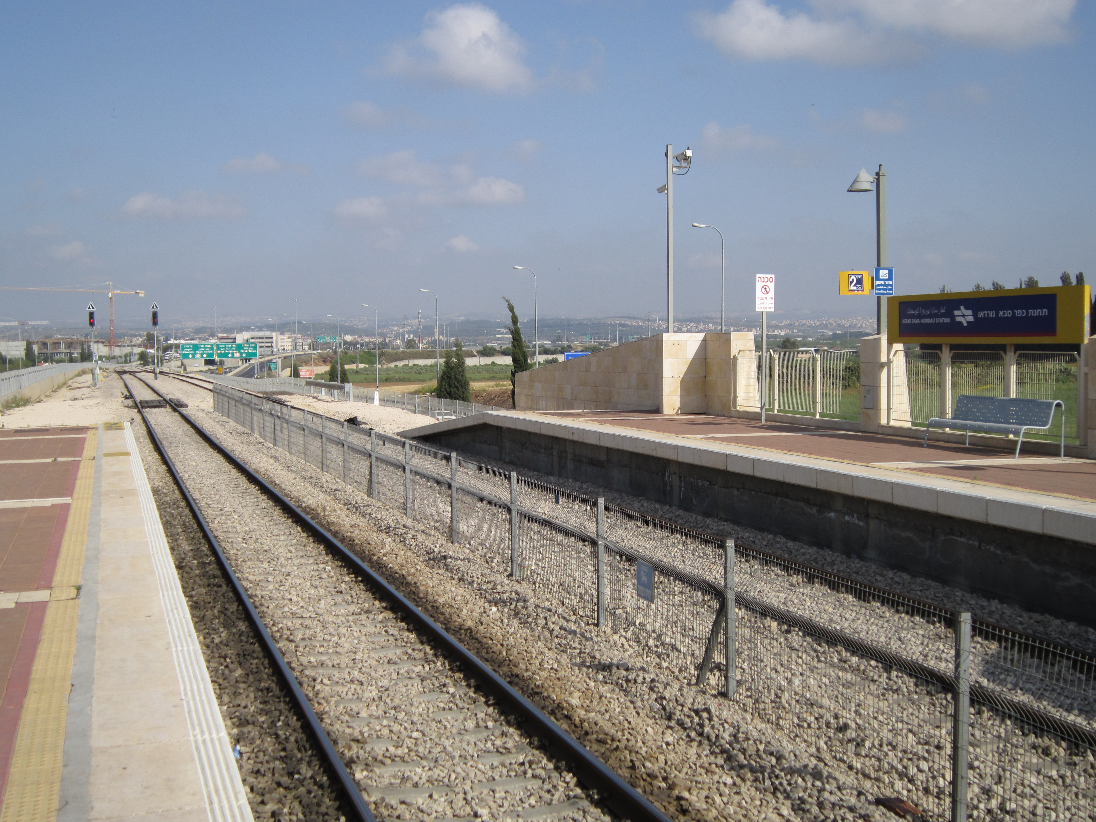 Kfar Saba – Nordau Railway Station